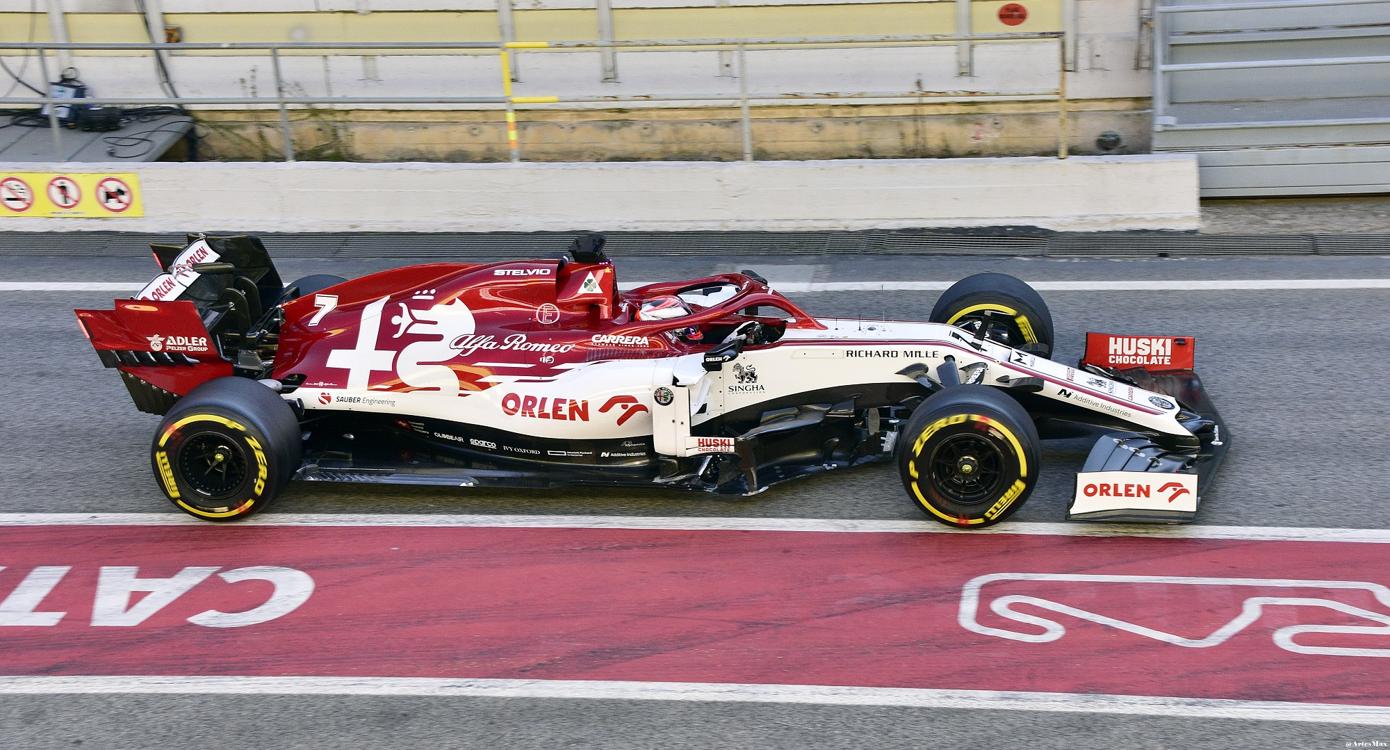 Formula 1 Pre-Season Testing 2020 / Circuit de Barcelona / Alfa Romeo C39 / Kimi Räikkönen / FIN / ​Alfa Romeo Racing ORLEN